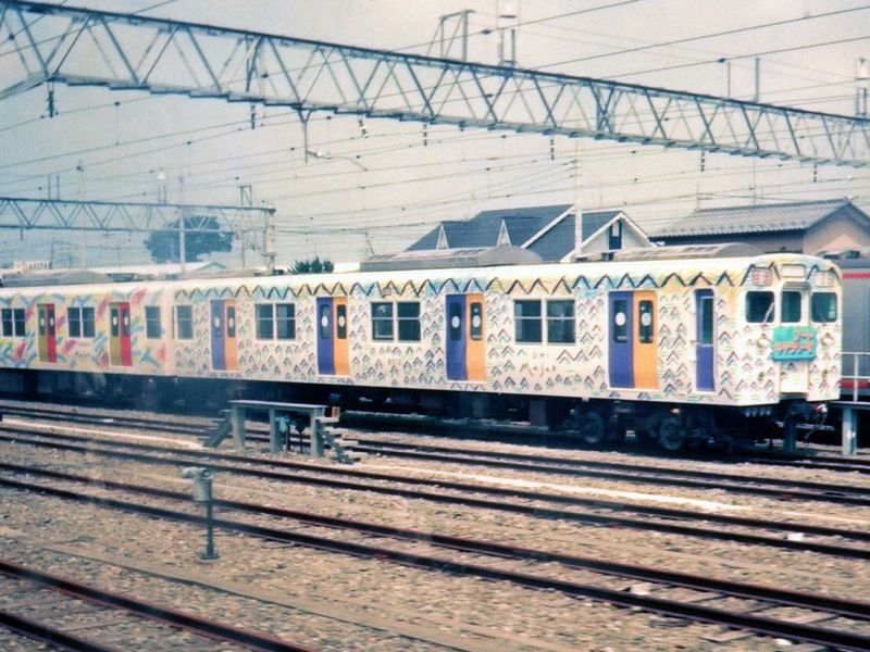 Sagami Railway(Sotetsu), EMU Type 6000 "Art Gallery Train" At Sagami-otsuka Sta.